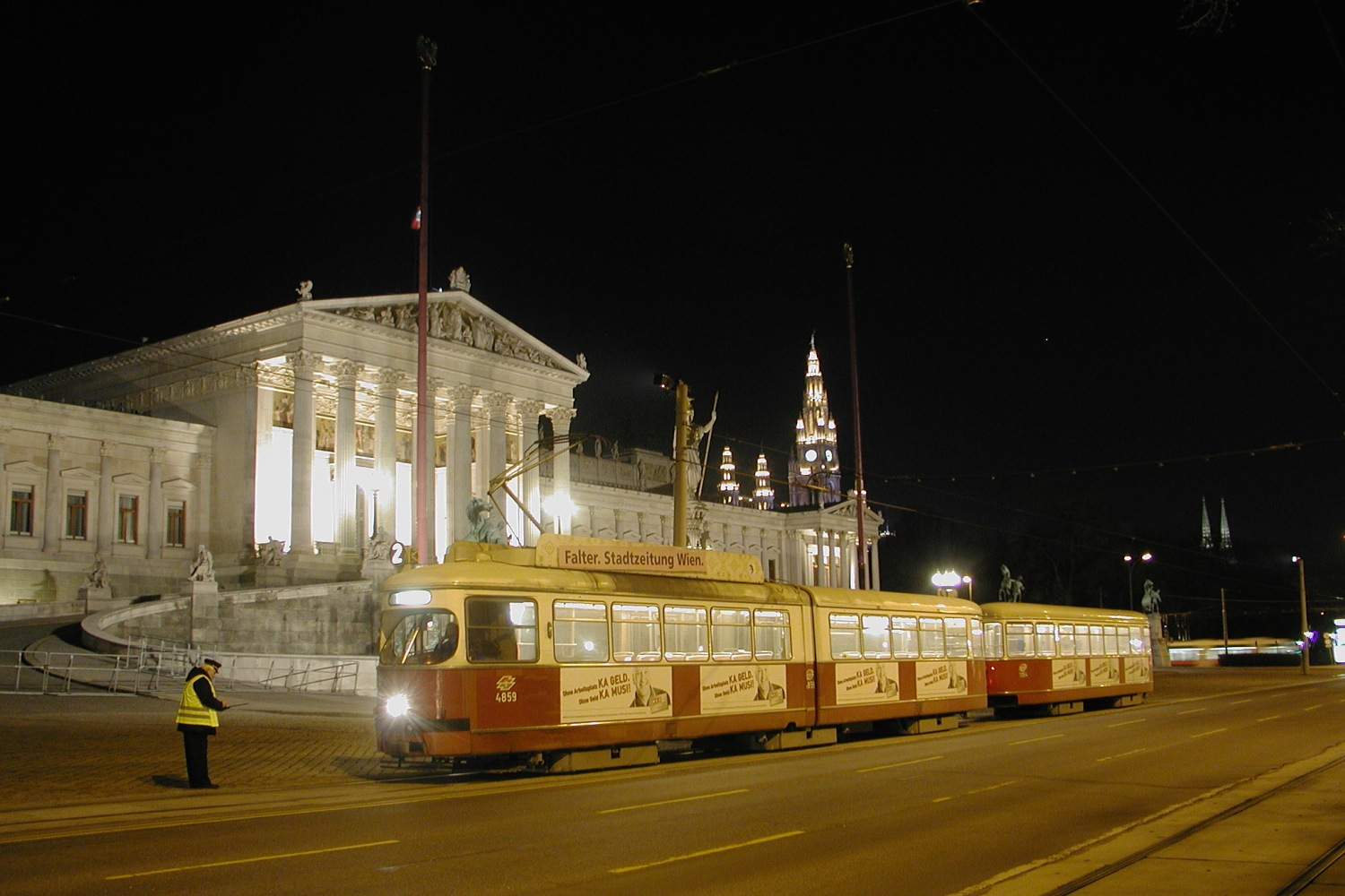 Austria, Vienna, Austrian Parliament Building